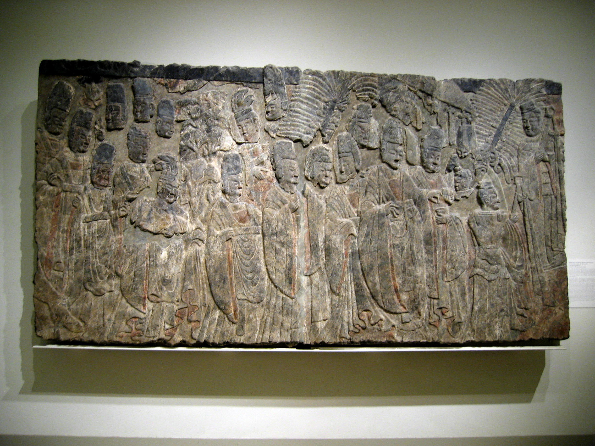 Relief from Central Binyang Cave, Longmen, Zhejiang, China. Emperor procession. Limestone. Northern Wei Dynasty. Metropolitan Museum of Art, NYC.